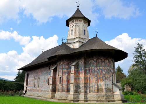 Manastirea Moldovita, eastern wall